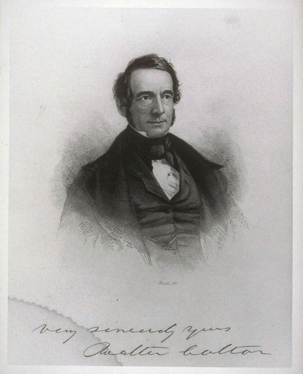 Engraving of Walter Colton (1797-1851), U.S. Navy chaplain and alcalde (mayor) of Monterey, California. Image is inscribed, "Very sincerely yours, Walter Colton".